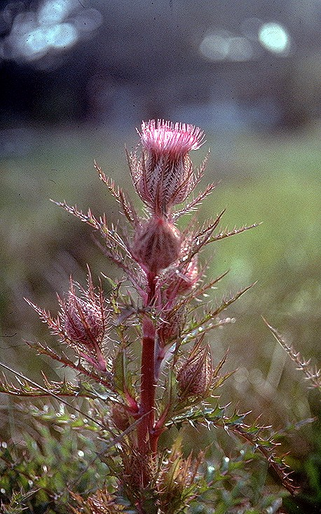 Cirsium horridulum Michx. (yellow thistle)